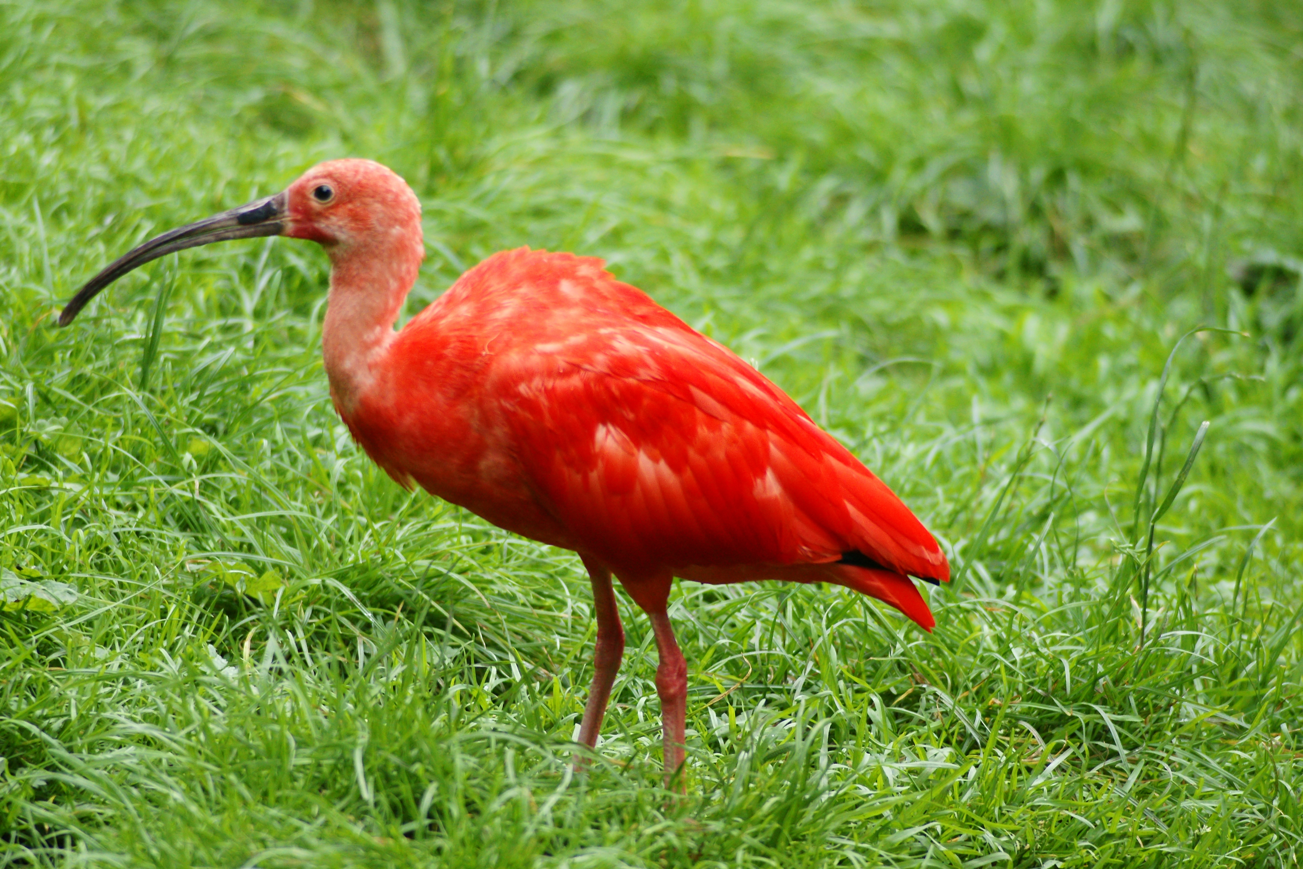 A Scarlet Ibis, at Pairi Daiza, Brugelette, Belgium.